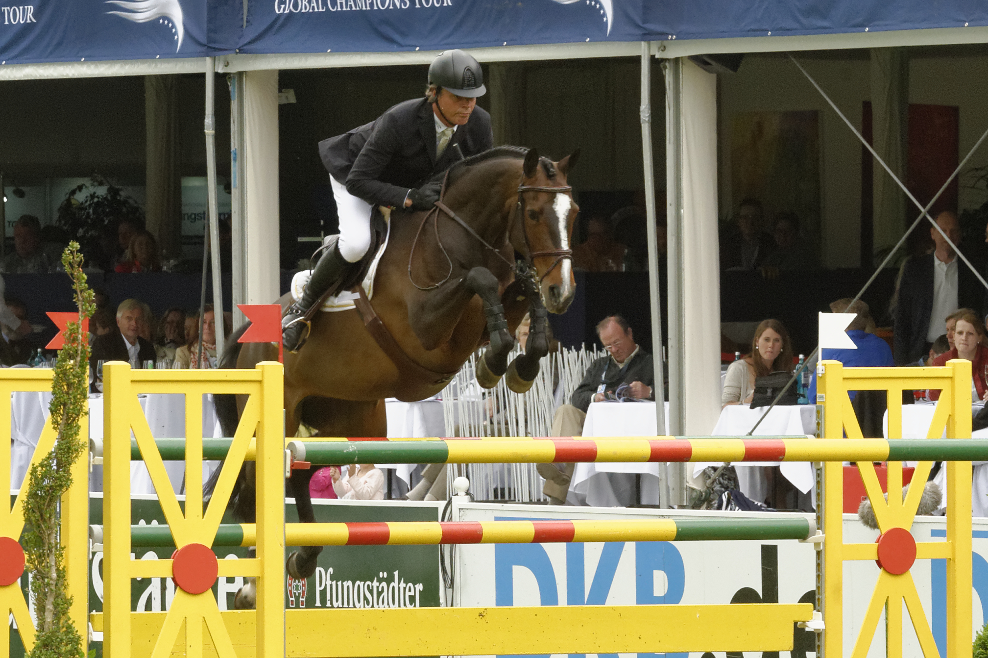 Internationales Pfingstturnier Wiesbaden 2013 The making of this document was supported by the Community-Budget of Wikimedia Germany.